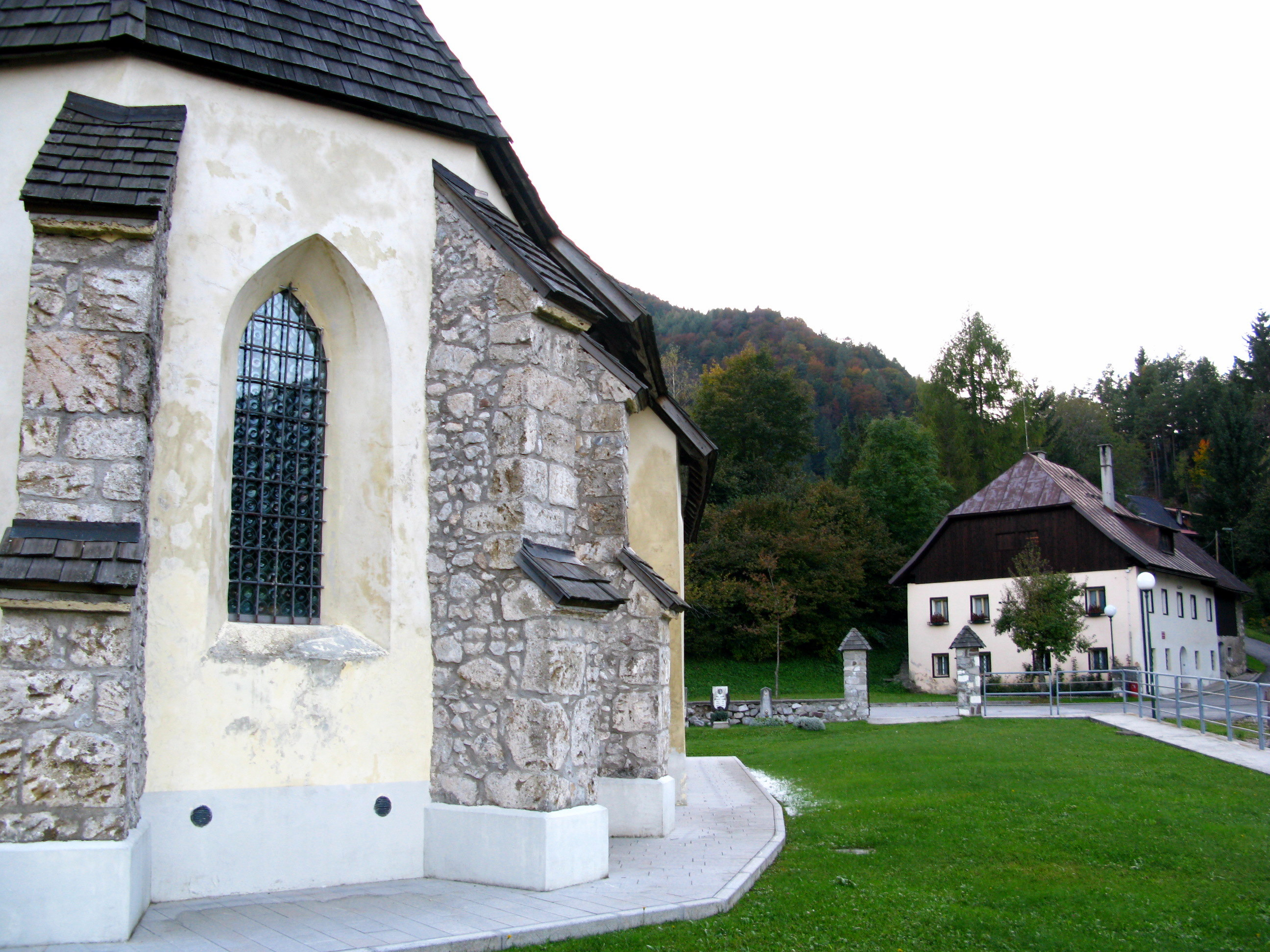 Church of Coccau in Coccau di Sopra, community Tarvisio in Friuli-Venezia Giulia / Italy / EU.